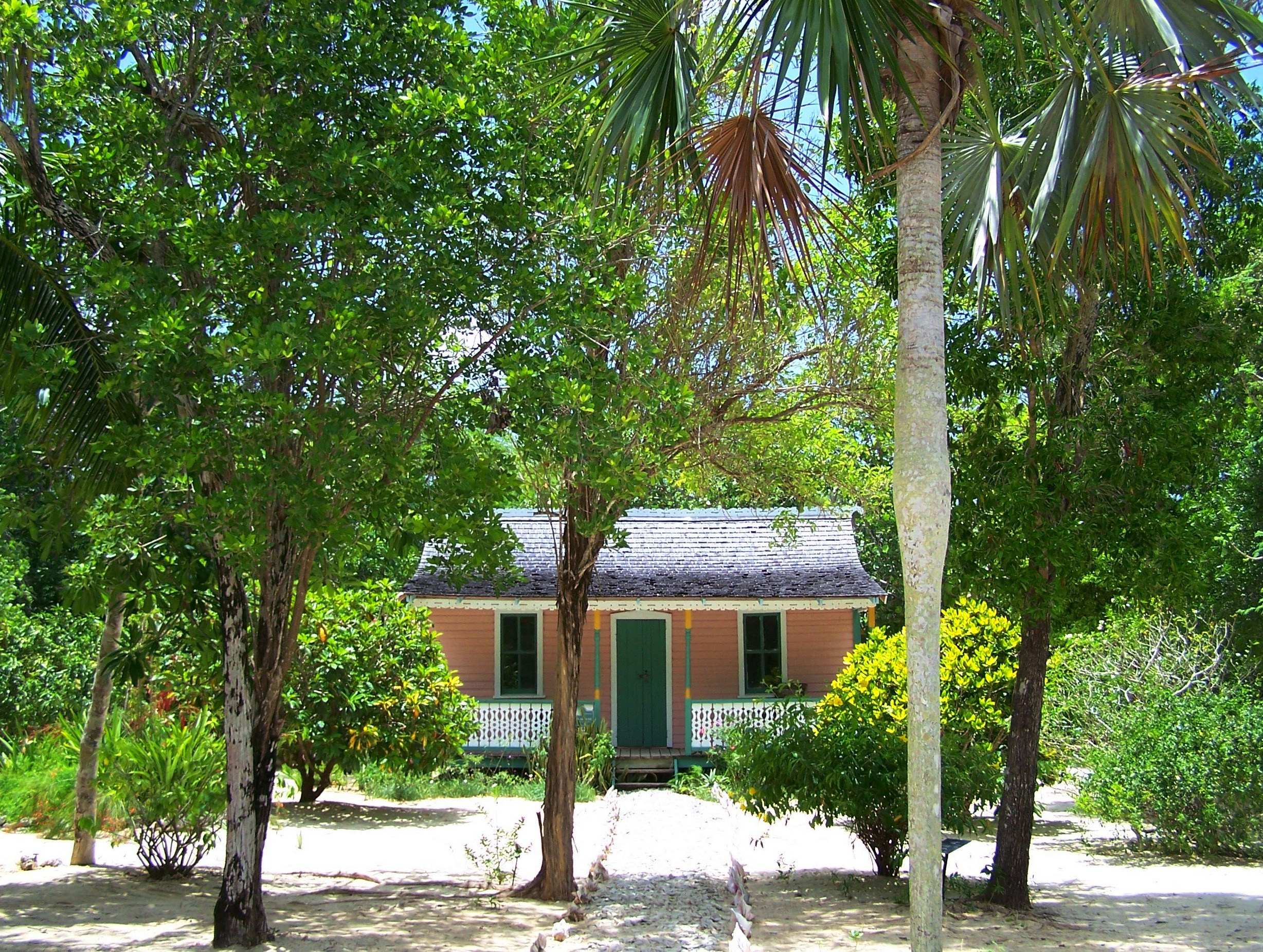 Traditional Caymanian home and surrounding sand garden at Queen Elizabeth II Botanic Park, Grand Cayman